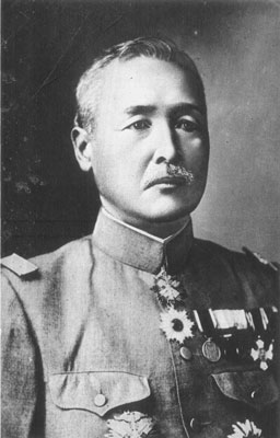 Kamio Mituomi, 1st Baron, GCMG